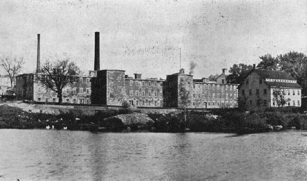 Marshall Hat Factory (Wyoming Mills), about 1903